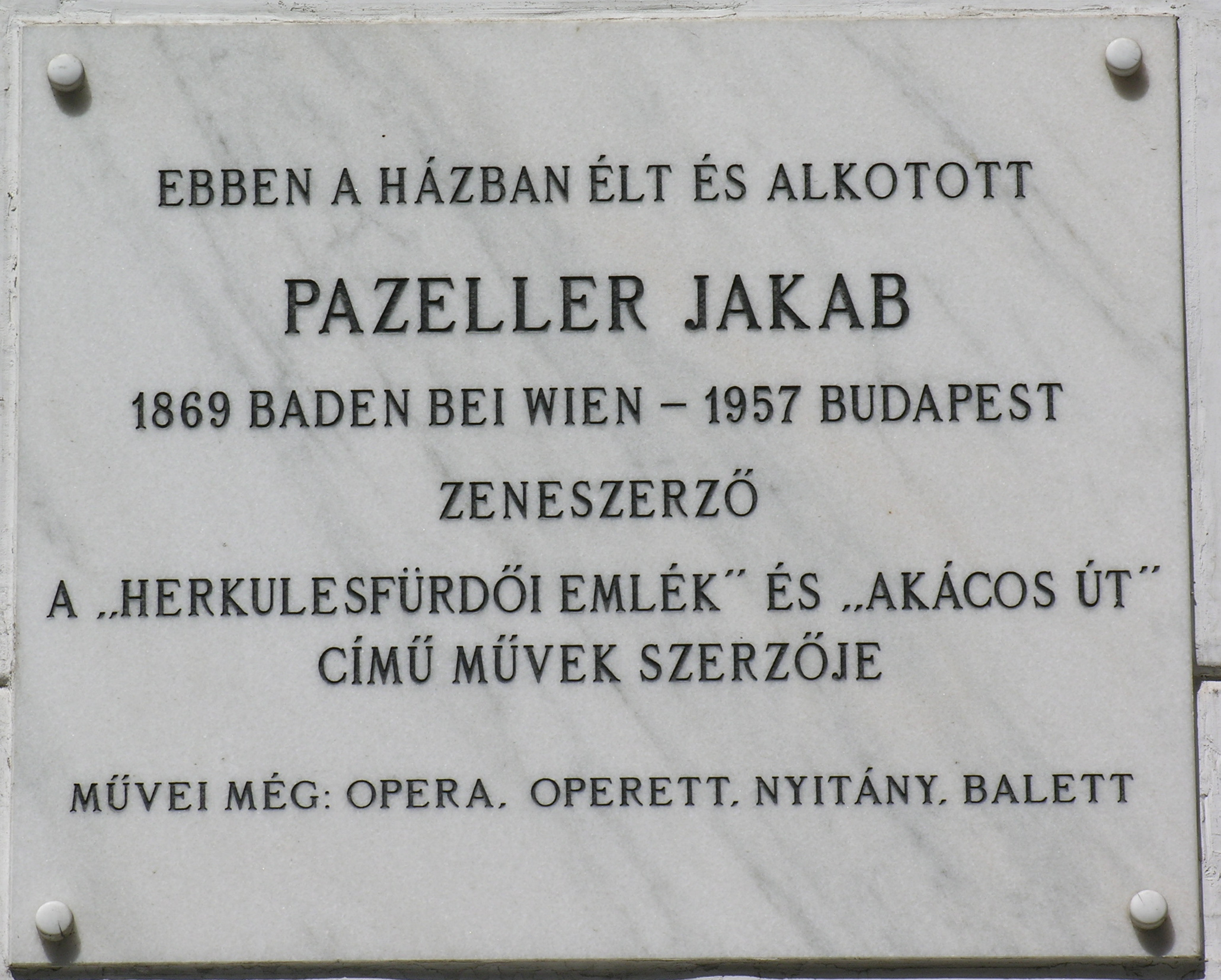 Commemorative plaque of Jakab Pazeller in Budapest District VIII, Pál Street No 6